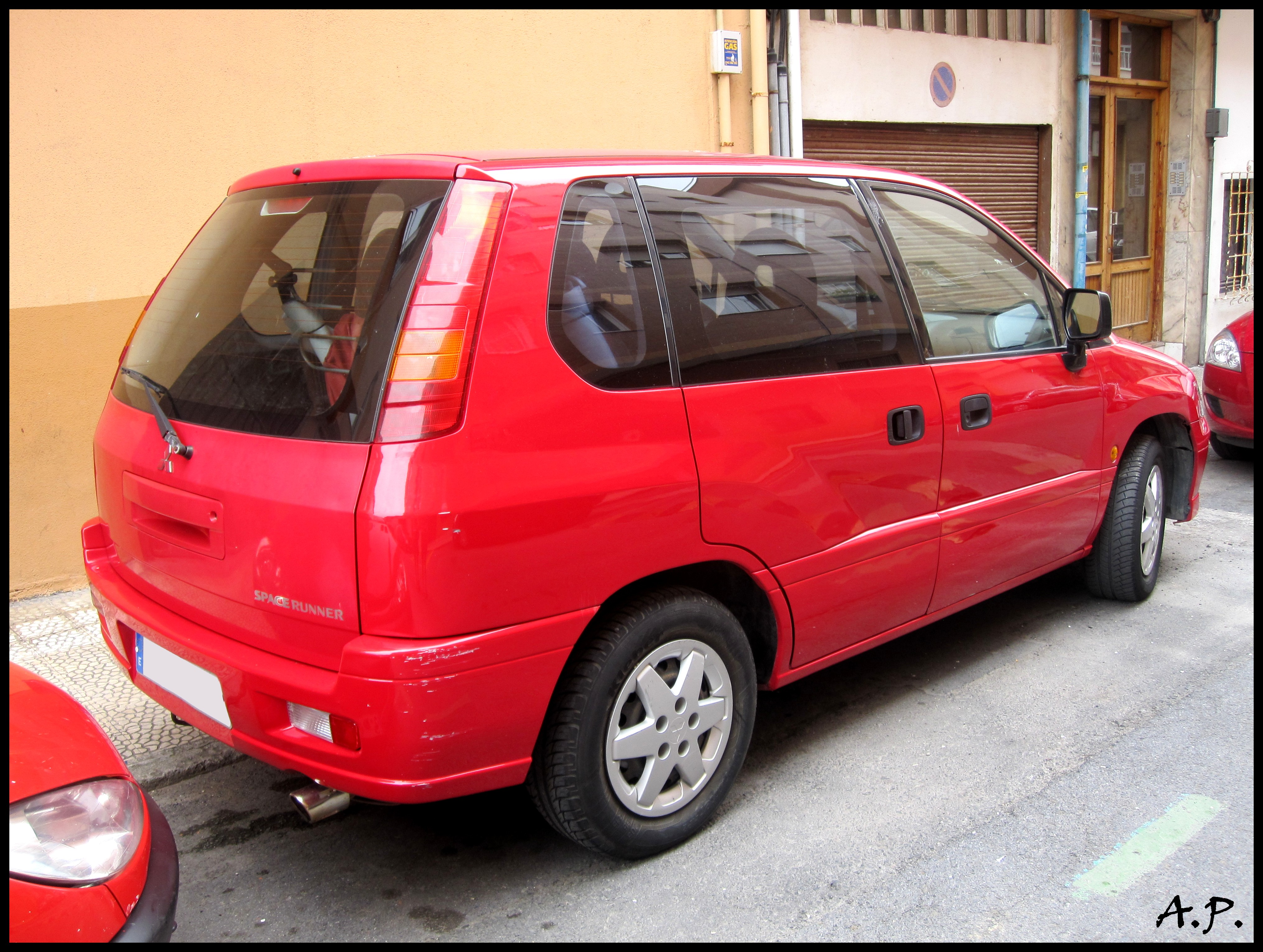 Very rare sight here in Spain, I don't think I have seen many others other than this one. I like the concept but if there's something I never liked that's the fact that it only has one side door...